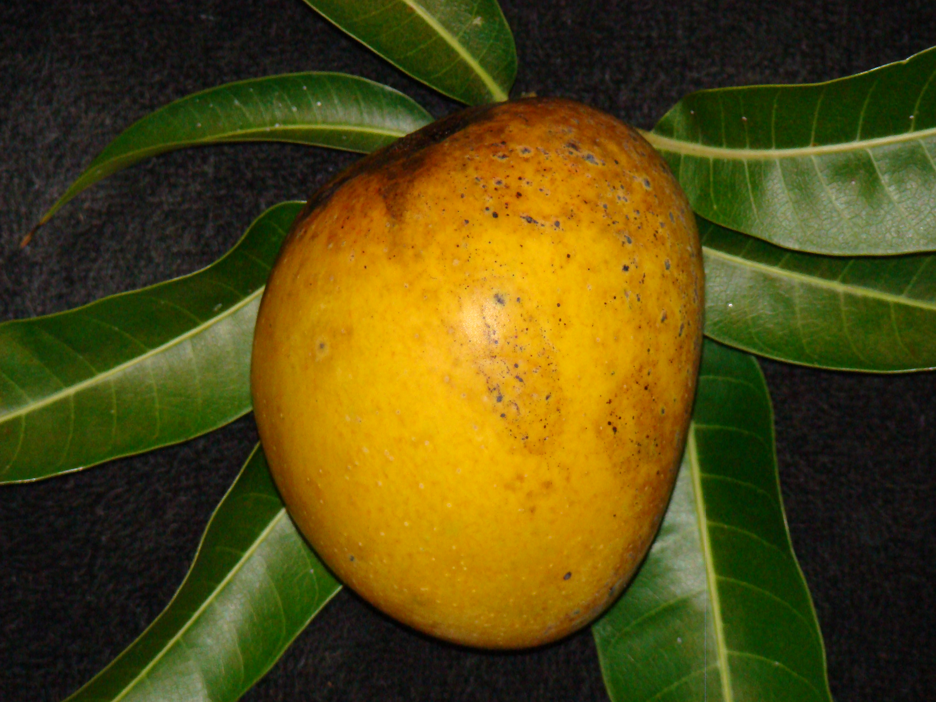 A ripe Alphonso mango from a 6ft tall tree in the Ghosh Grove, Rockledge, Florida. The tree, fruiting for the time, had been in the ground since April, 2009.